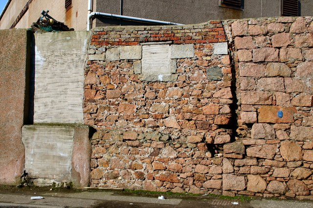 Remains of whale bone arch, Peterhead. In the 19th century, the fishing town of Peterhead was heavily involved in whaling in Greenland waters. The blubber was stripped from the main quarry, Greenland Right Whales, and brought back to Peterhead in barrels for rendering into whale oil. The oil was mainly used for lighting and in the textile industry. The boil yards were situated on the island of Keith Inch. This wall contains the now blocked up entrance to one of the yards. It is clear that originally a whale bone arch (the lower jaw) was erected over the entrance. All that can be seen now are the remains of the niche into which it was set.